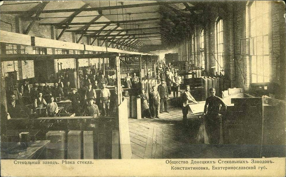 Glass manufacture at Kostyantynivka. Glass cutting sector.